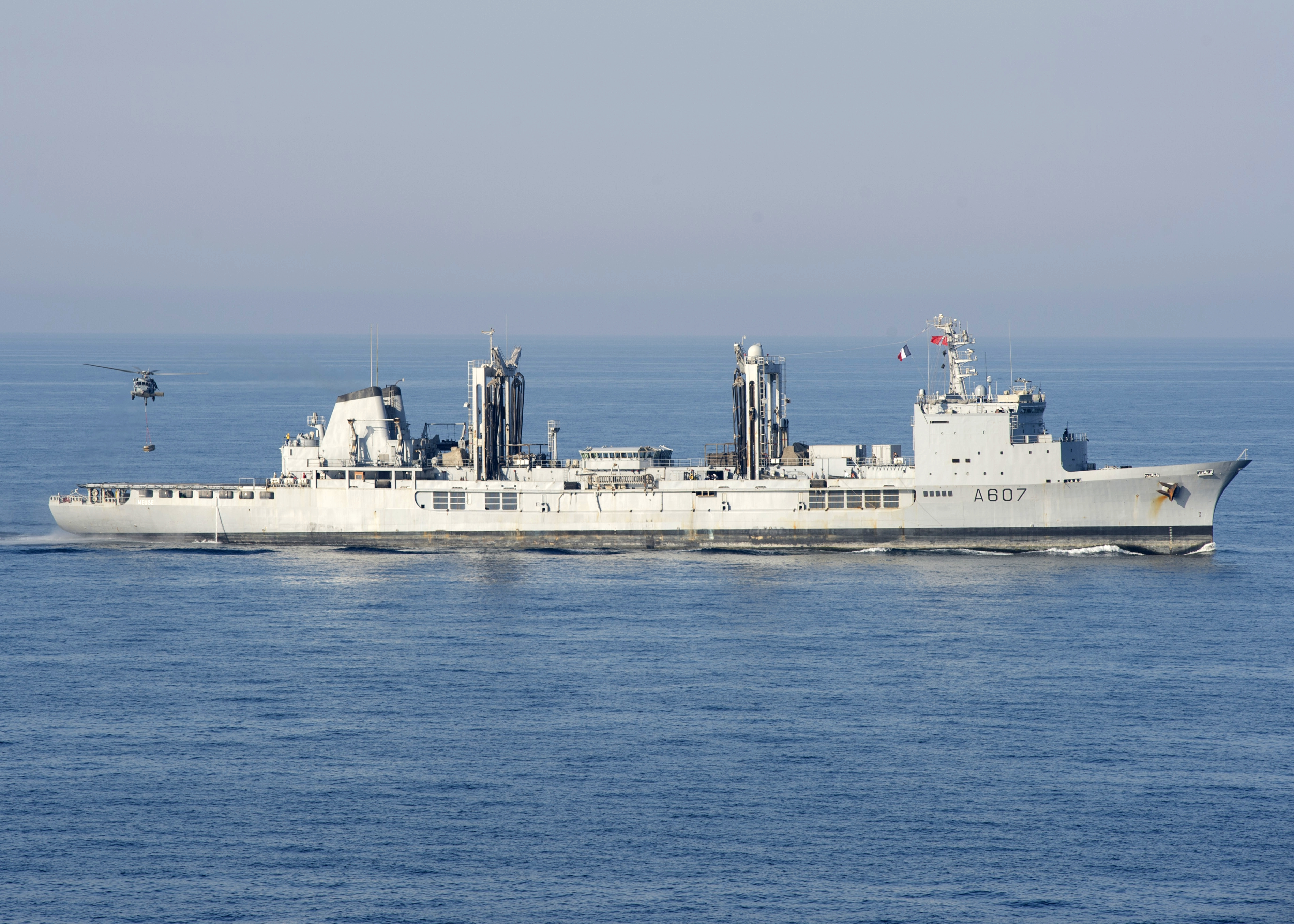 The French Marine Nationale Durance-class replenishment oiler Meuse (A607) transits the Arabian Gulf during a vertical replenishment with the U.S. Navy aircraft carrier USS Carl Vinson (CVN-70) on 2 March 2015. A Sikorsky MH-60S Seahawk helicopter from of Helicopter Sea Combat Squadron (HSC) 15 "Red Lions" is visible in flight above Meuse.